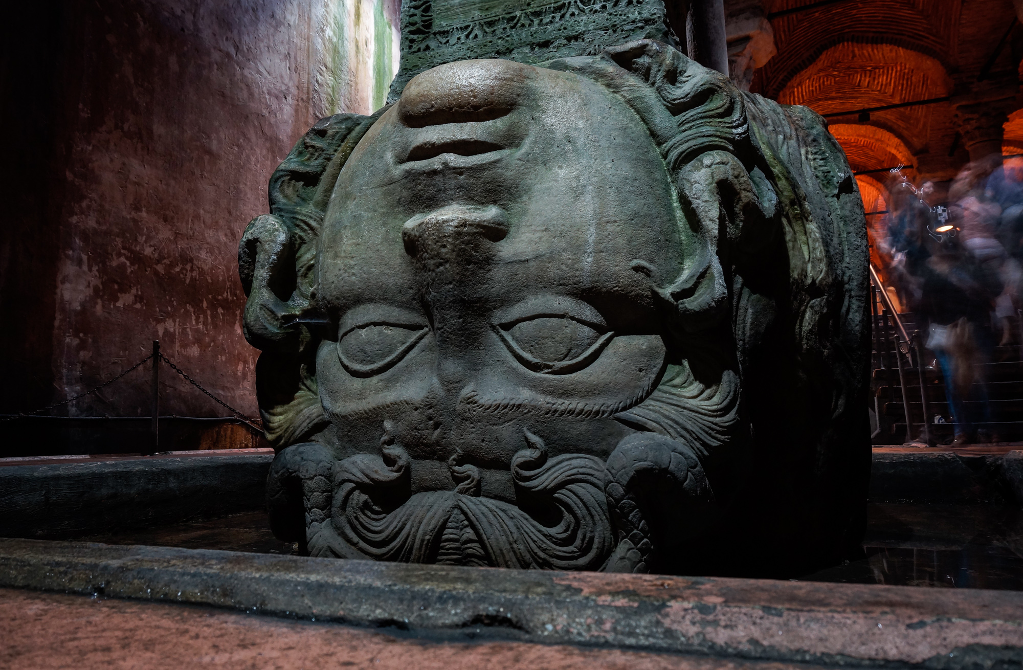 Basilica Cistern (tr. Yerebatan Saray), Istanbul.